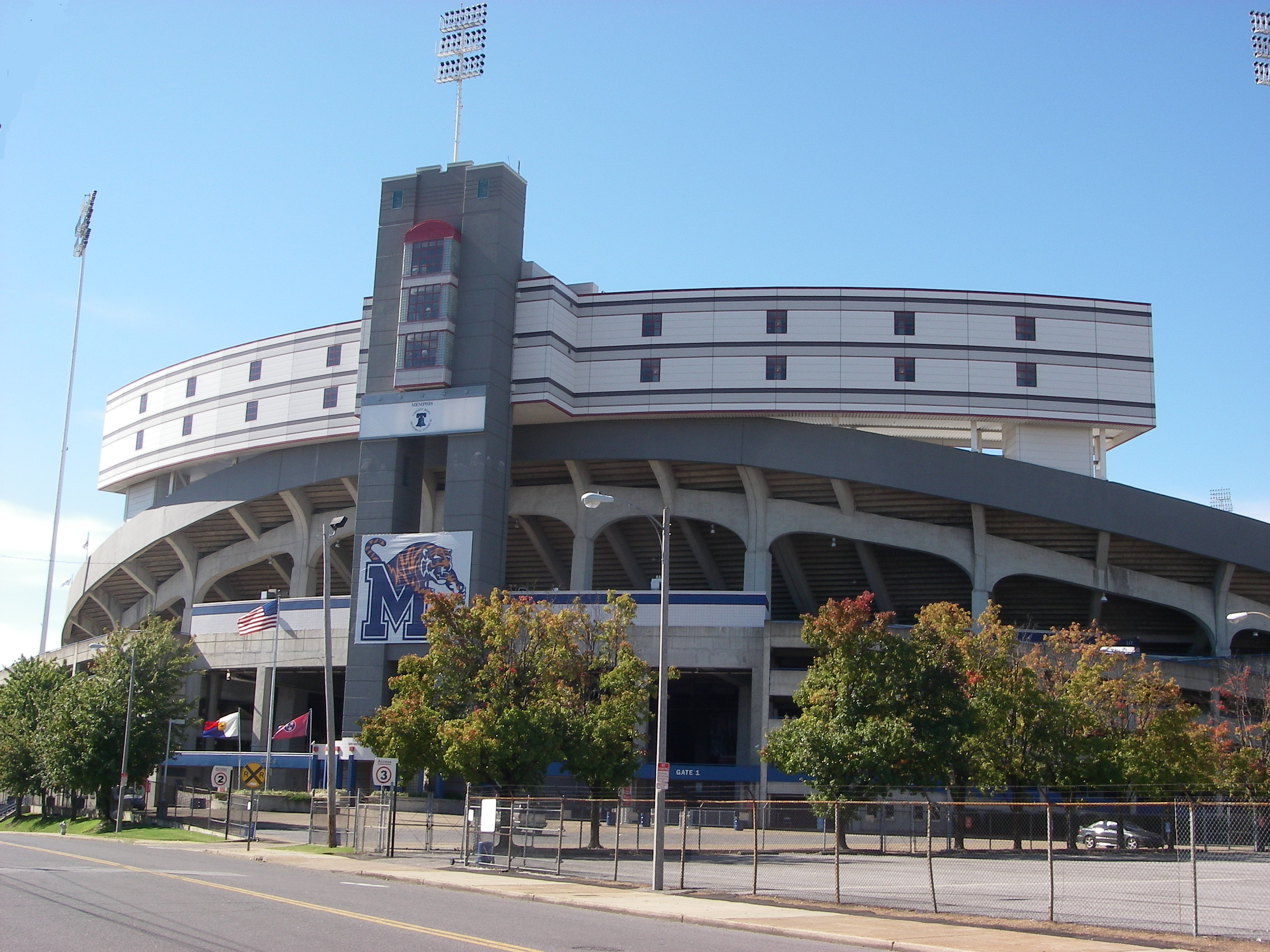 I personally took this photo.